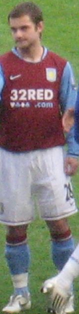 Shaun Maloney. Image cropped from original at flickr.